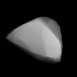 3D convex shape model of 1683 Castafiore, computed using light curve inversion techniques. J. Hanuš, J. Ďurech, M. Brož, B. D. Warner (June 2011). "A study of asteroid pole-latitude distribution based on an extended set of shape models derived by the lightcurve inversion method". Astronomy and Astrophysics 530: A134. ISSN 0004-6361. arXiv